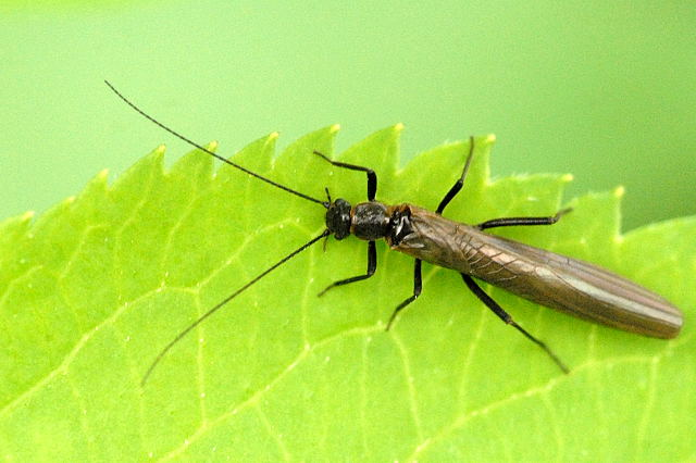 Leuctra inermis from Commanster, Belgian High Ardennes .